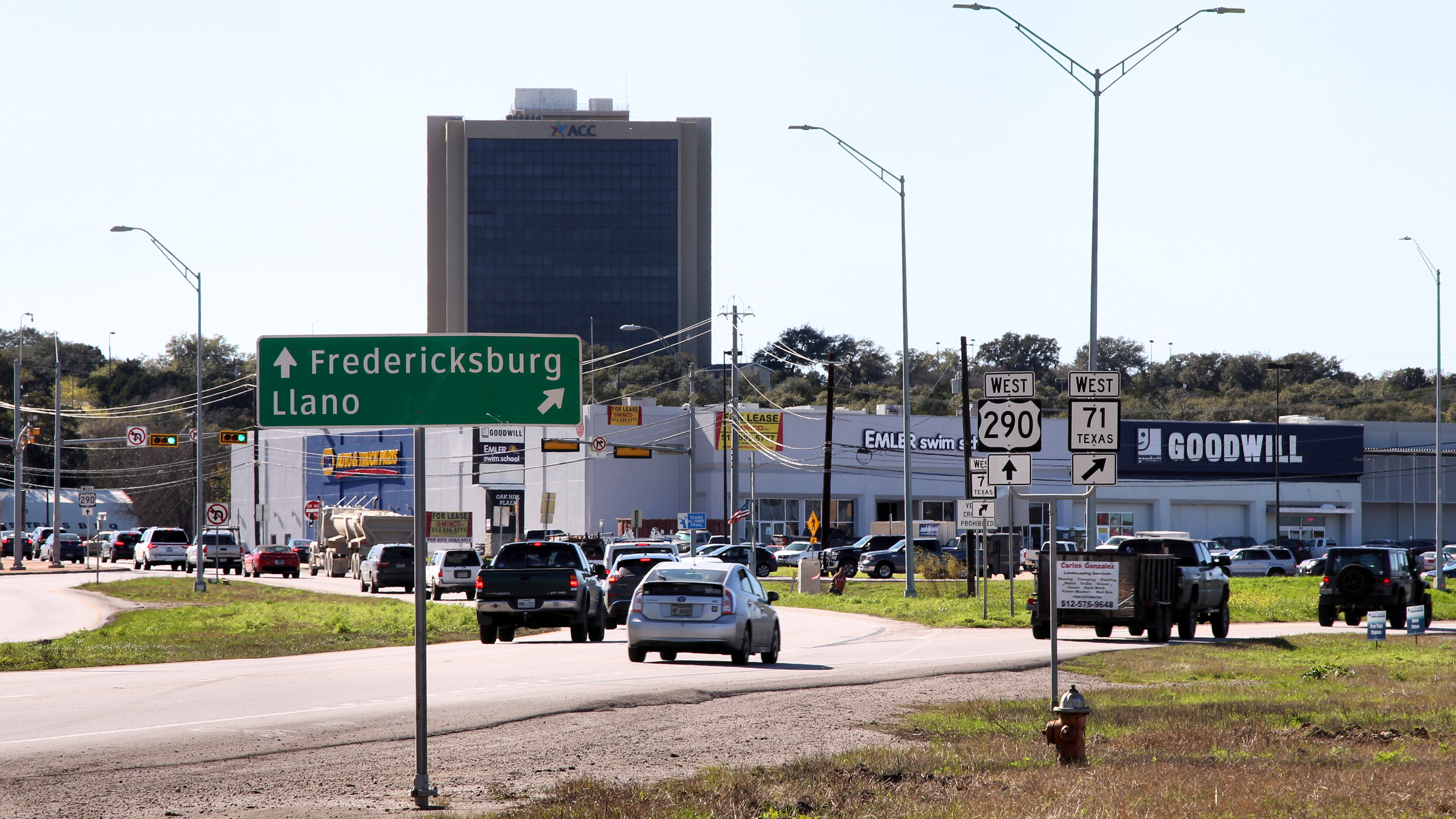 The "Y" in the Oak Hill neighborhood of Austin, Texas. U.S. Route 290 and Texas State Highway 71 separate at this point. The two highways run concurrent with each other approximately nine miles from Interstate Highway 35.